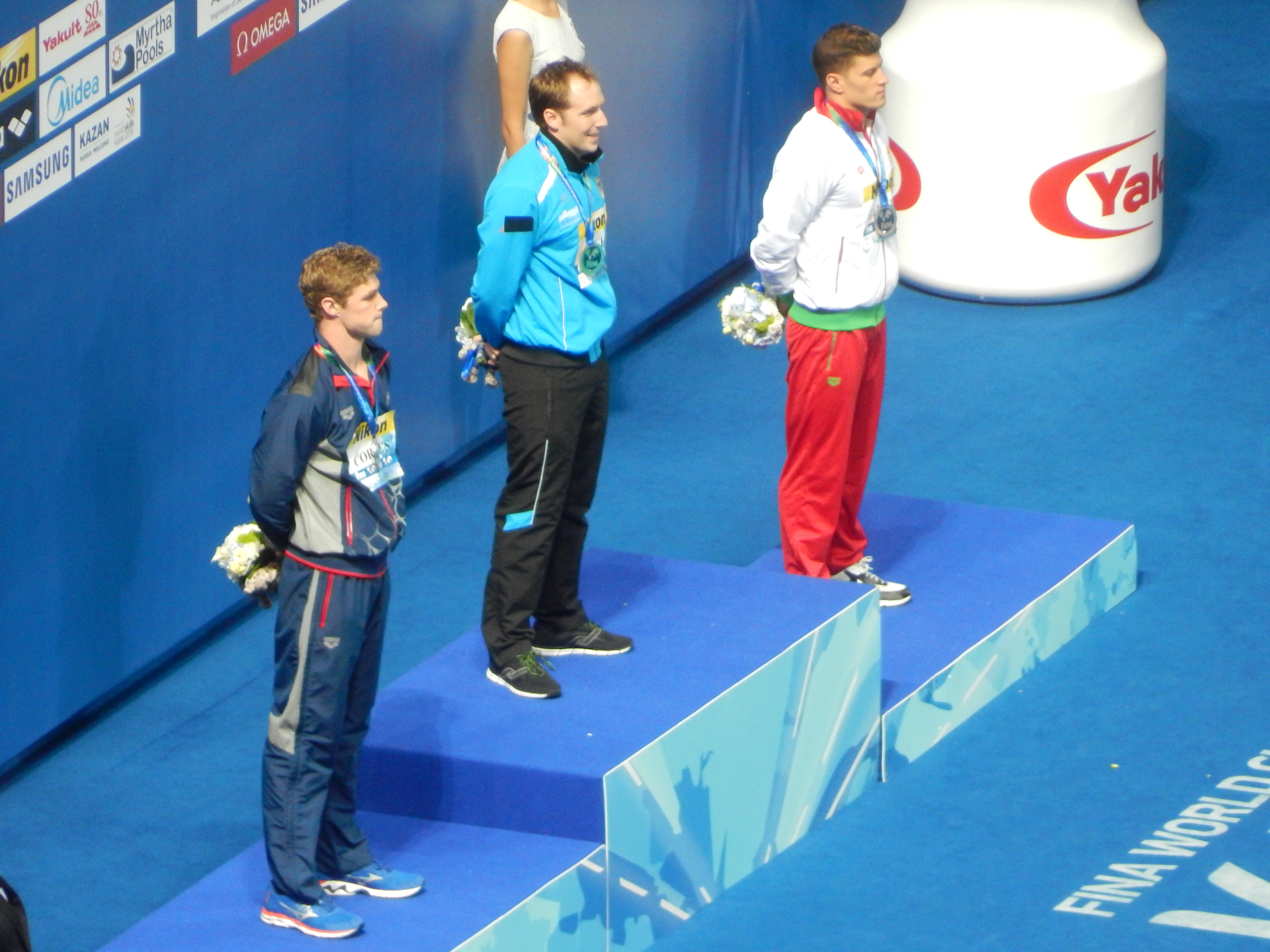 Victory Ceremony of men's 200 metre breaststroke on 2015 World Aquatics Championships, Kazan